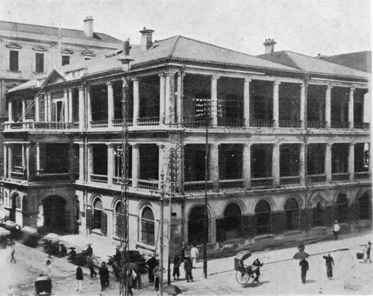 old premises of jardine matheson and co